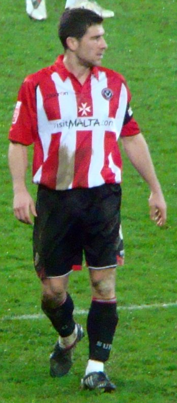 Nick Montgomery in his Blades kit.